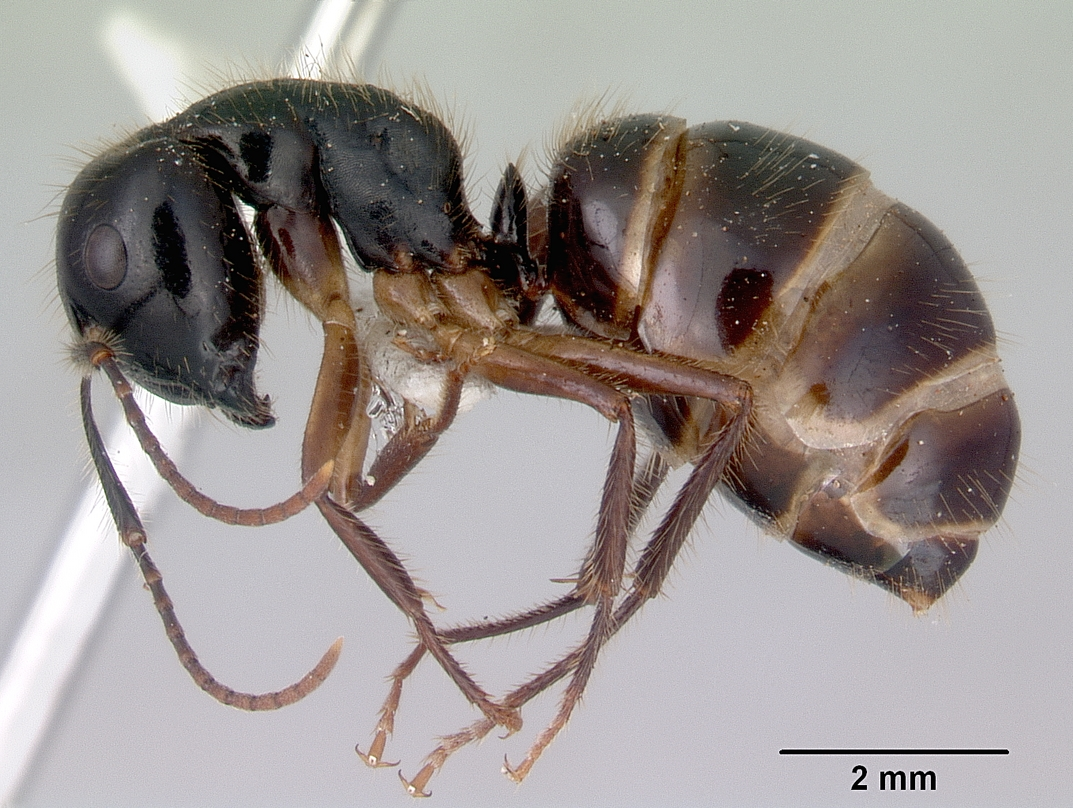 Profile view of ant Camponotus evae specimen casent0172145.